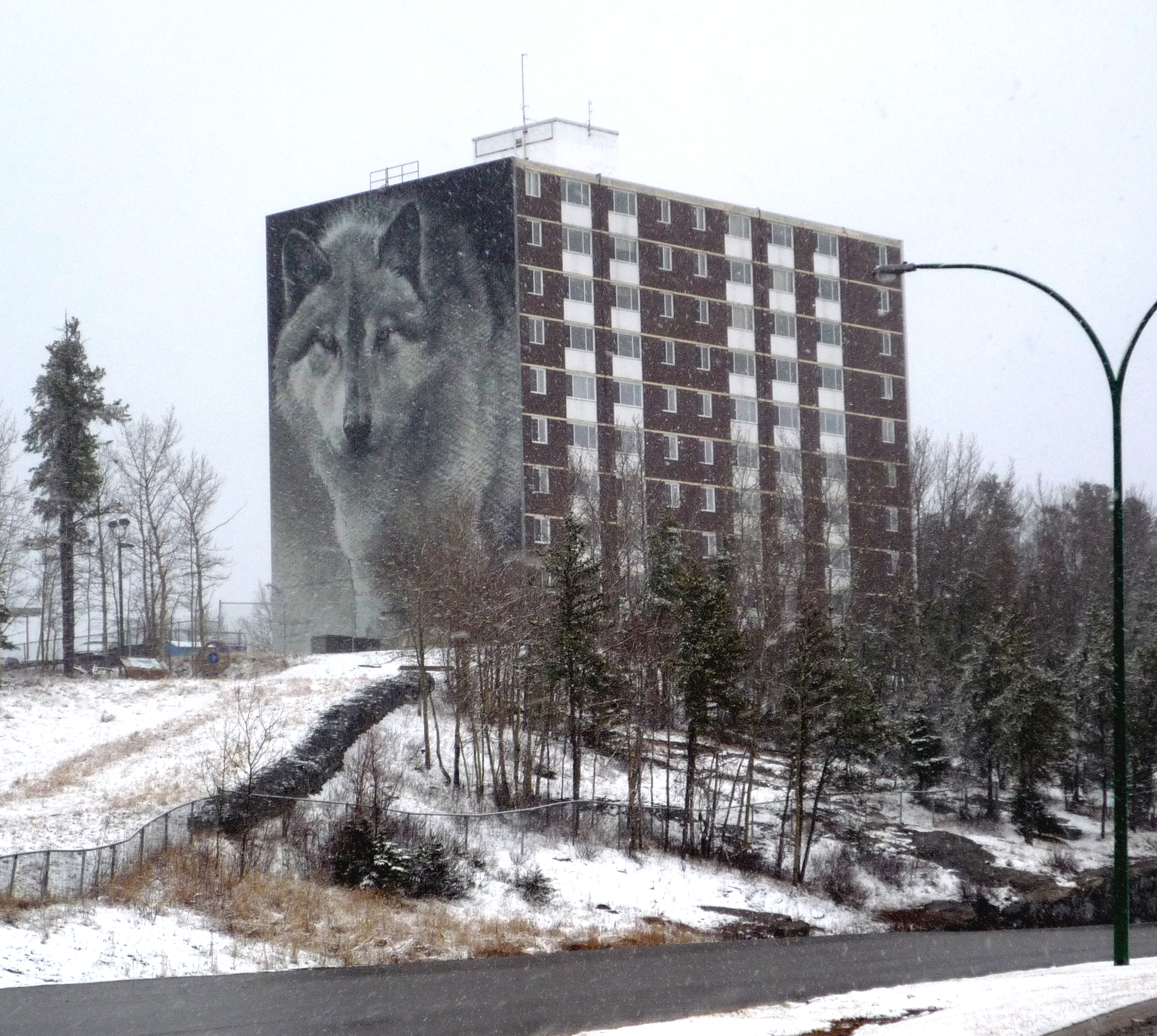 The Highland Tower apartment block, painted with a giant mural as part of the Spirit Way project, and the most prominent building in Thompson, Manitoba